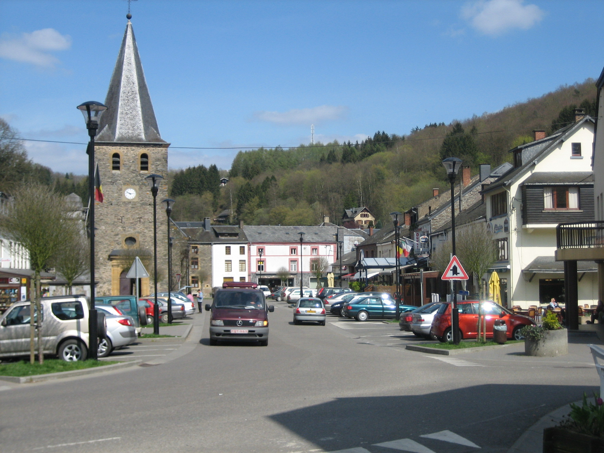 Centre of Bohan, Vresse-sur-Semois, Arrondissement of Dinant, Namur, Wallonia, Belgium